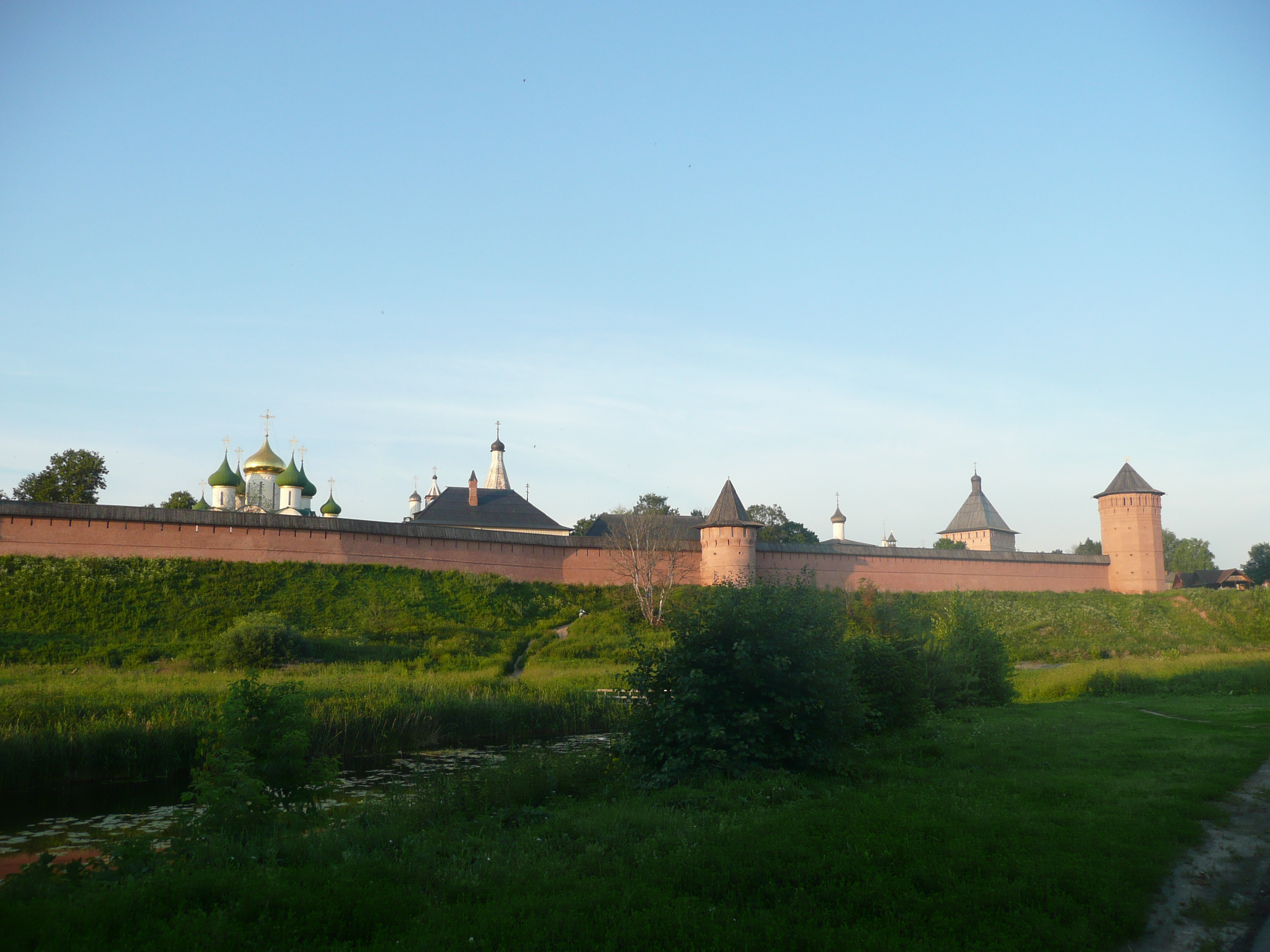 Spaso-Evfimiev monastery in Suzdal, view over the river Kamenka